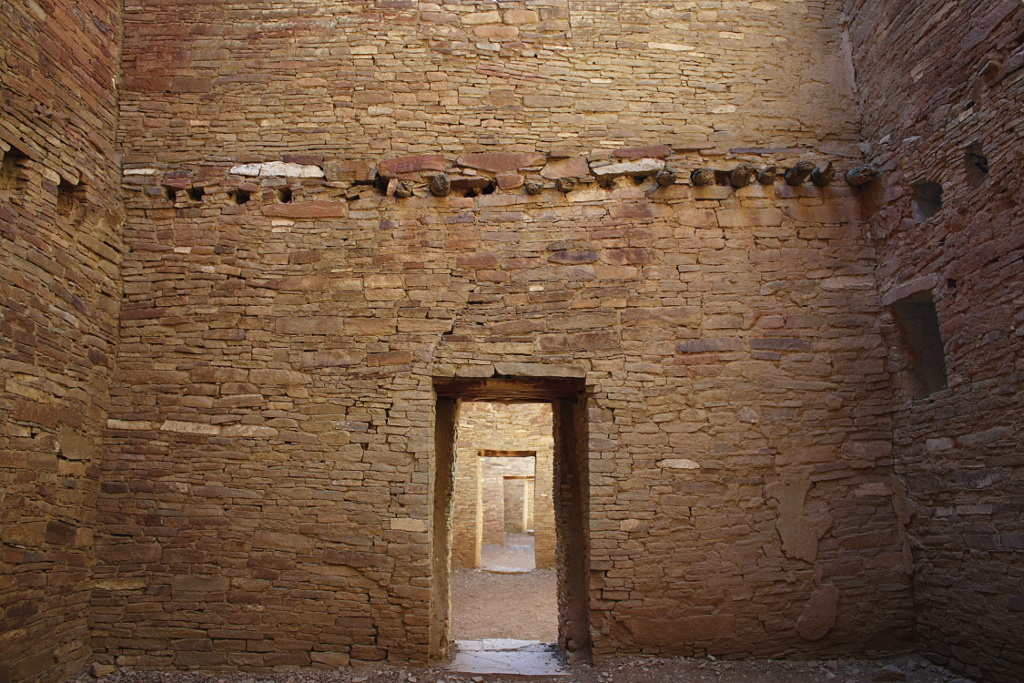 Aligned doorways in Pueblo Bonito, the largest pueblo in Chaco Culture National Historical Park, New Mexico, USA